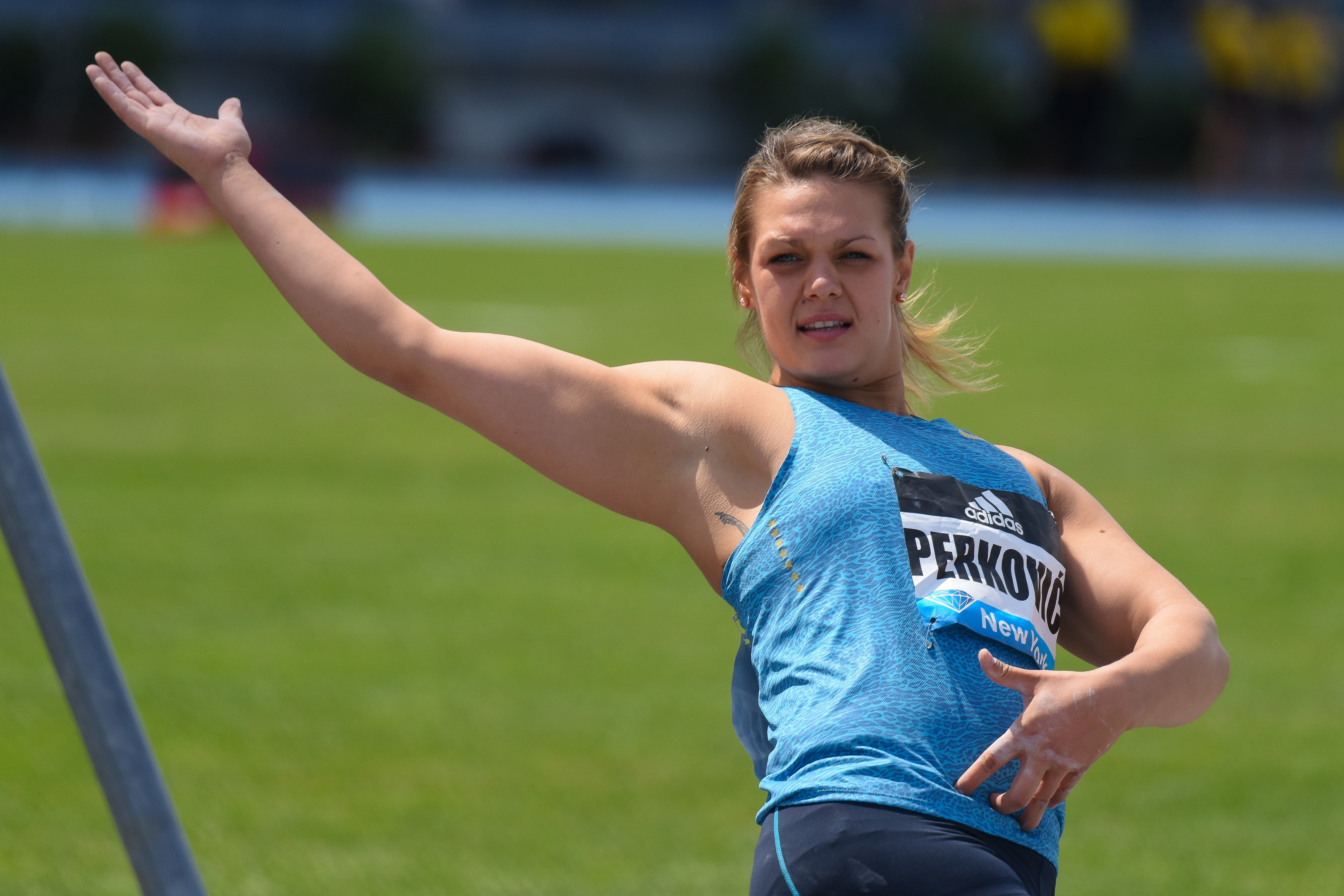 June 13, 2015 Icahn Stadium, Randall's Island New York, NY World and Olympics champion in the discus.